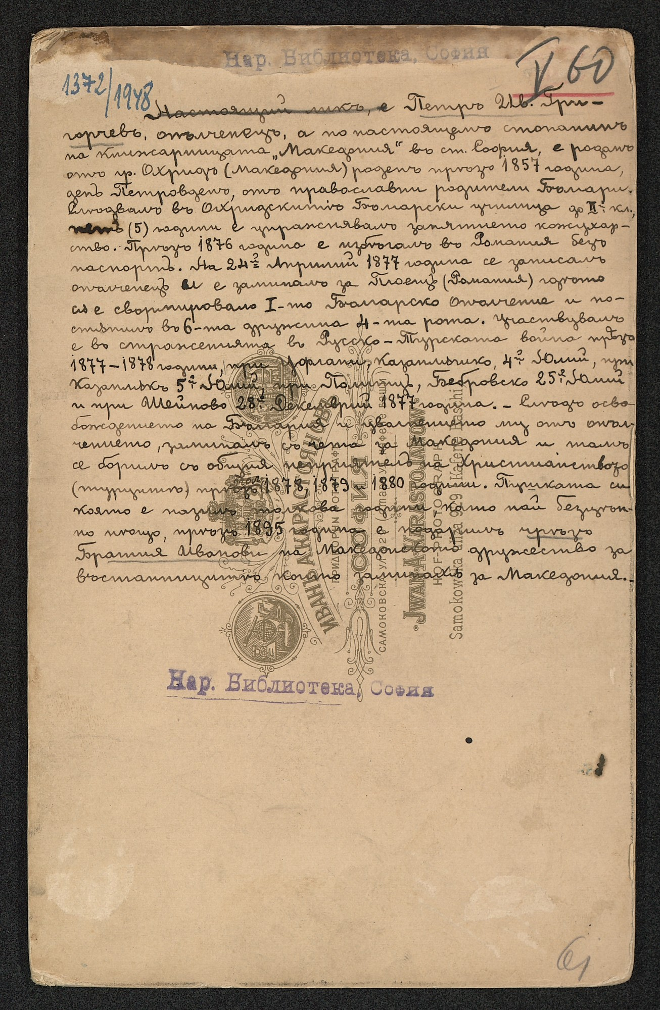 Petar Grigorchev